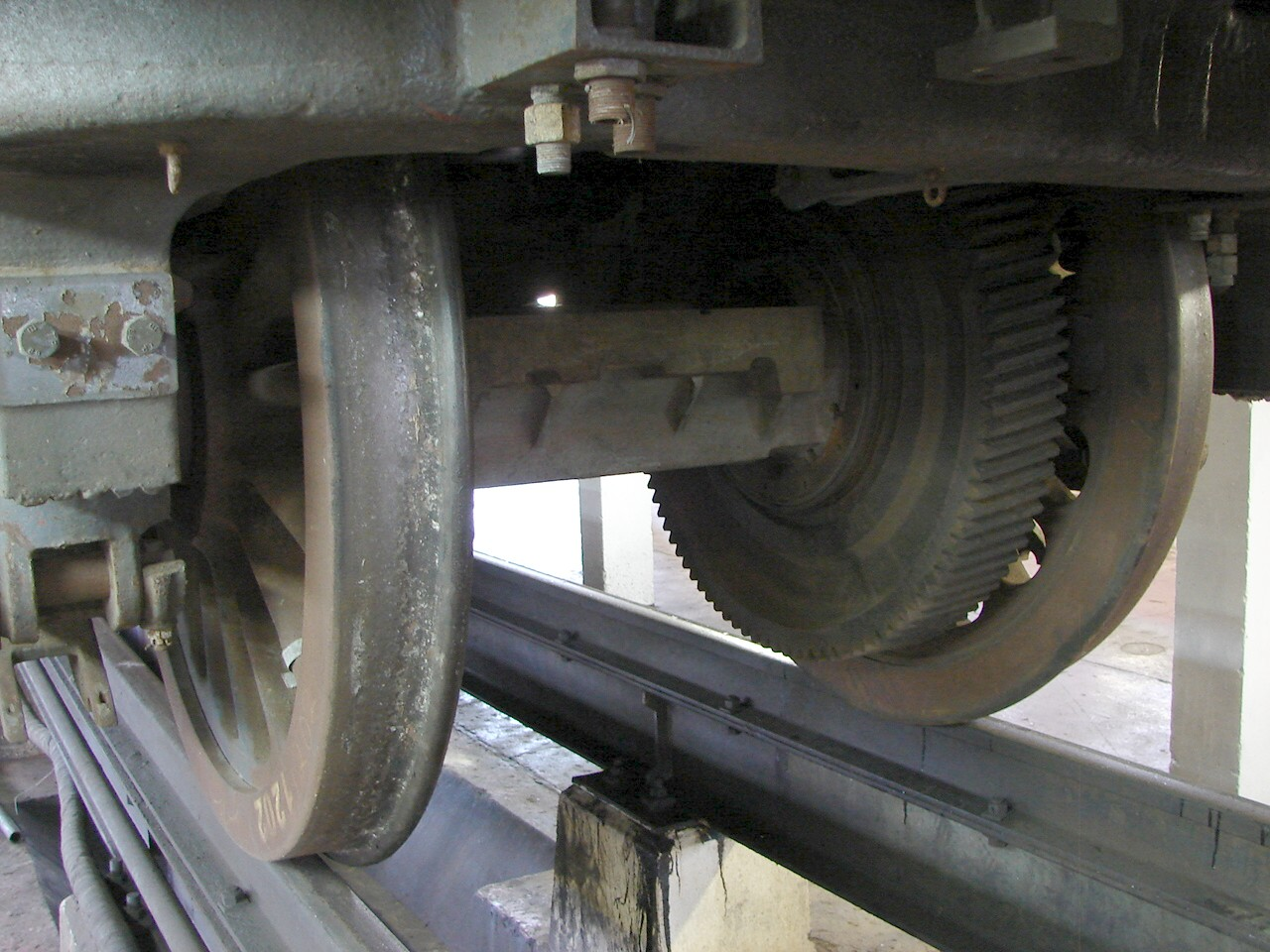 Spoornet Class 14E1 wheels are spoked and use helical gears, here visible under parts donor 14-105Location: Bellville, Cape Town